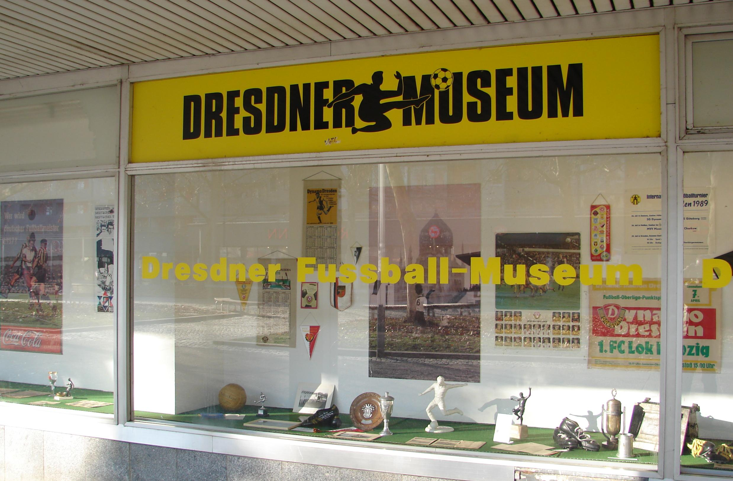 Soccer Museum Dresden